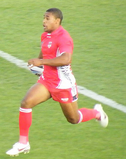 Cropped image of Tongan Centre Michael Jennings. RLWC 2008.